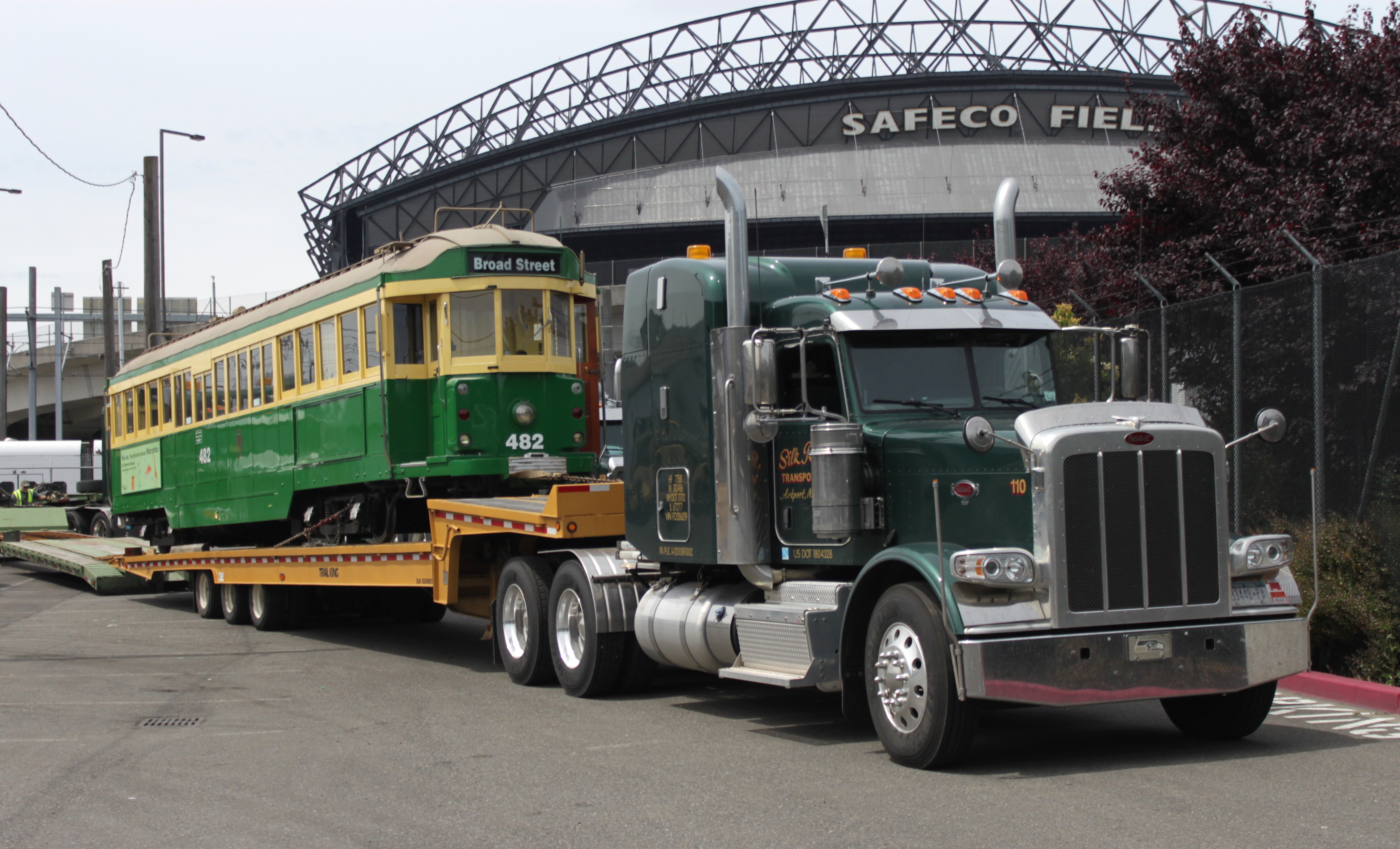 Former Melbourne tram 482, a 1928 W2-class car, loaded onto a truck trailer next to Safeco Field in Seattle, for its move to St. Louis, Missouri. It was one of several Melbourne streetcar acquired by Seattle in the 1980s for use on the Waterfront Streetcar line, which opened in 1982 (with three cars initially, two others being restored and added to the operational fleet in 1990 or later). The line ceased operation in 2005, and plans to reopen it did not come to fruition. In 2016, three of the five streetcars were sold to the Loop Trolley Transportation Development District in St. Louis, for eventual use on a heritage streetcar line under construction there, and they left Seattle in early June 2016.